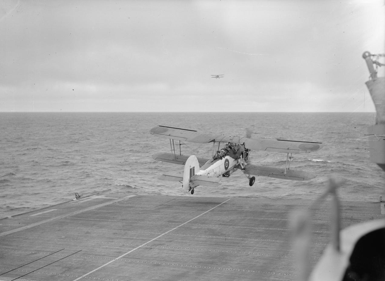 A Fairey Swordfish of No 824 Squadron Fleet Air Arm takes off from the escort carrier HMS Striker during an anti-submarine sweep.